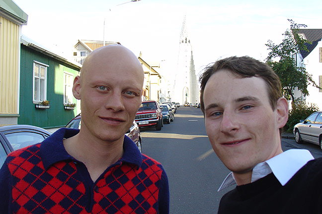 Photographer: Florian Knorn. Source: [1]. Tómas Lemarquis (left) and Florian Knorn (right) in Reykjavík